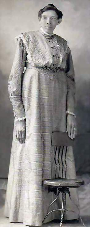 Photo of Ella Ewing, considered the worlds tallest woman of her era. She died in 1913. This image was taken and published before then, and certainly well before 1923, thus is considered in the public domain under U.S. laws. The purpose of its use on Wikipedia is to illustrate the subject of her article and display her extreme height in a manner the average reader can comprehend.